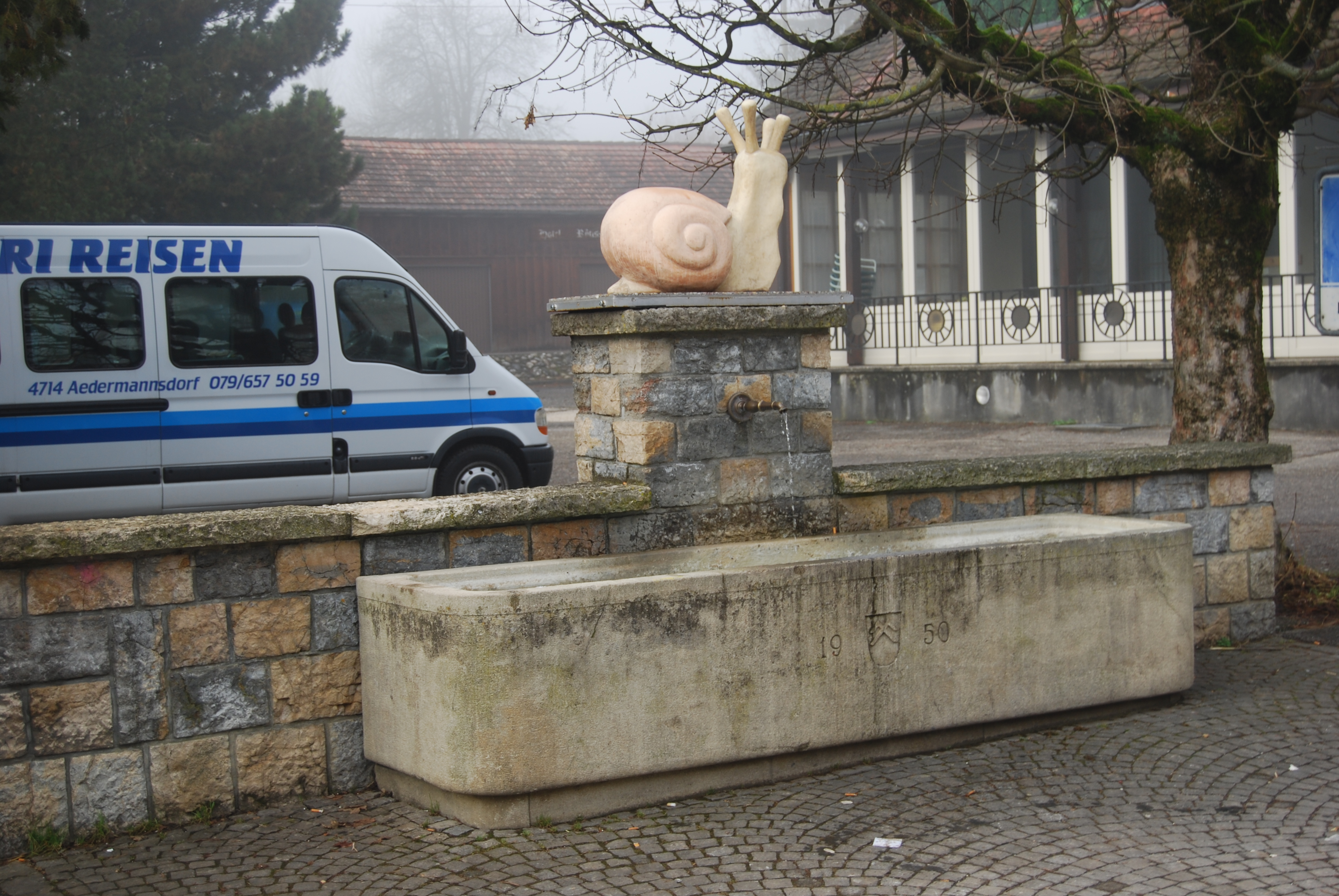 Village fountain at Matzendorf, canton of Solothurn, SwitzerlandEsperanto: Vilaĝa puto en Matzendorf, Kantono Soloturno, Svislando